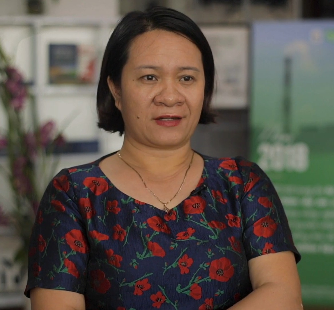 We sat and talked with Nguy Thi Khanh, Executive Director for GreenID (Green Innovation and Development Centre, Ha Noi, Viet Nam on Climate Change and Renewable Energy. __ Content and Interview: Fransiskus Tarmedi Video and Editing: Anuscha Engchuan for Mediawok Co., Ltd. This video is licensed under Creative Commons License (CC-BY-NC-SA-ND 4.0). This video is part of the web-dossier "Climate Justice Now!" by Heinrich-Böll-Stiftung Southeast Asia 2019